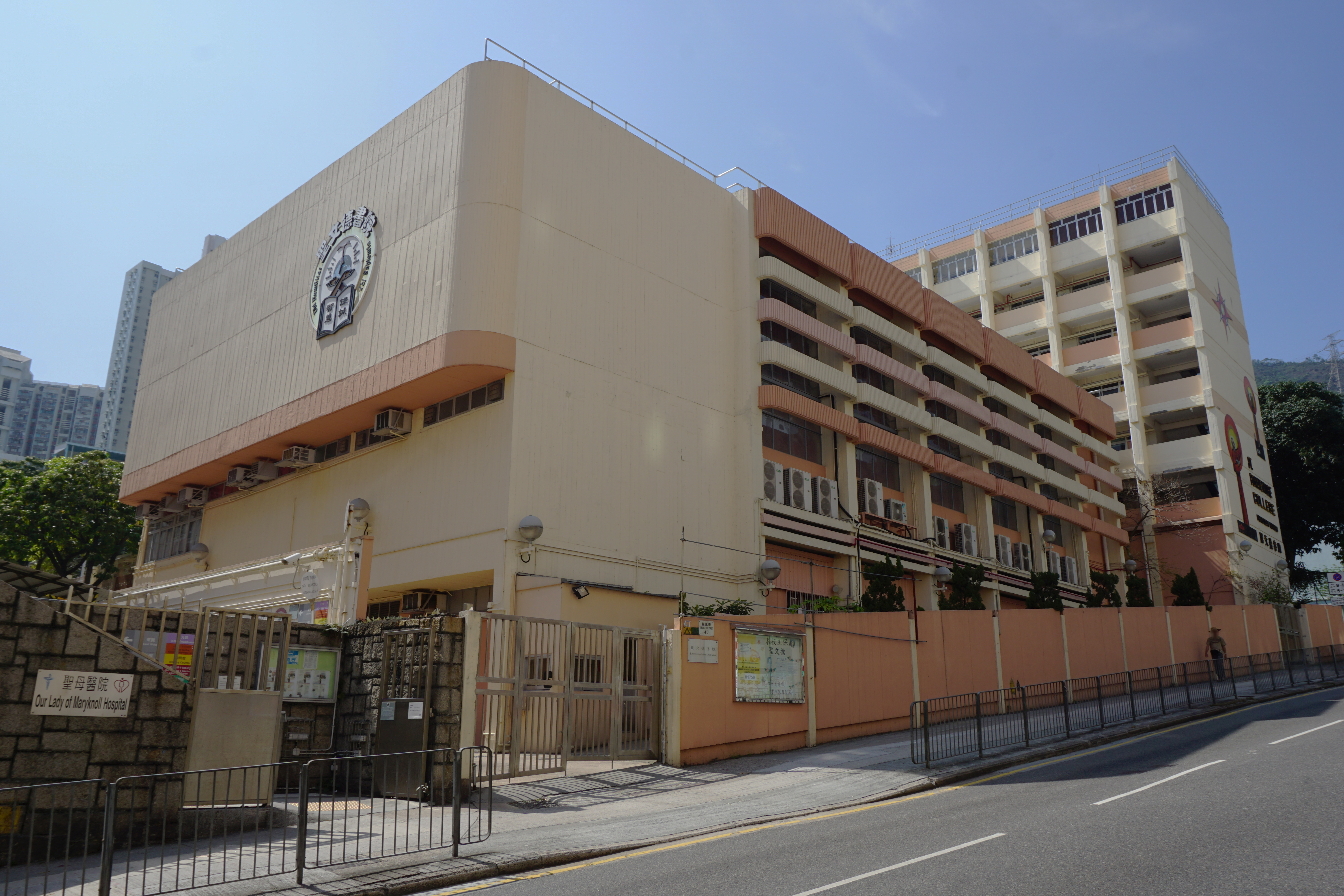 St. Bonaventure College and High School in Tsz Wan Shan, Hong Kong.